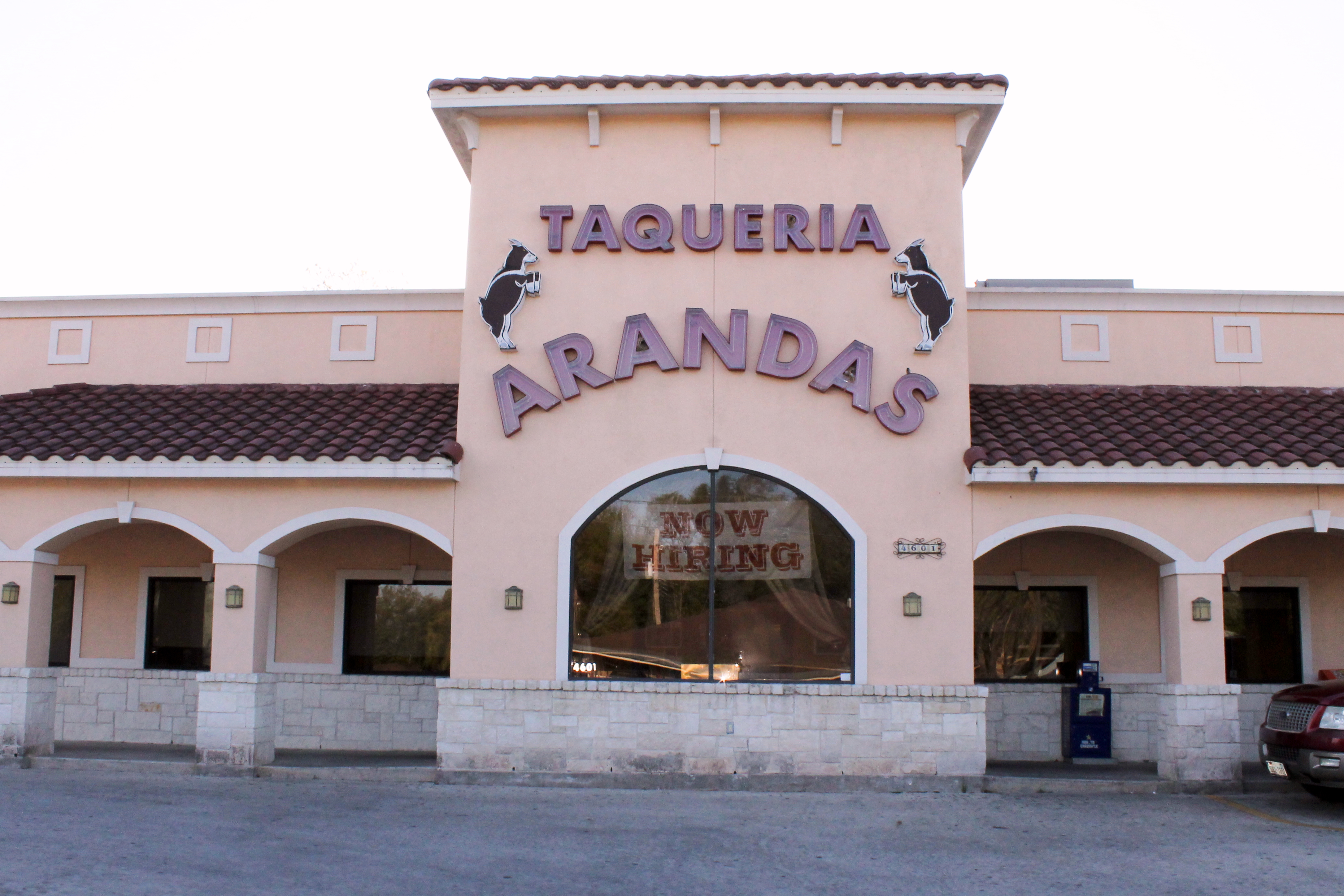 The original location of Taqueria Arandas, a Mexican restaurant chain which opened on Irvington Drive in Houston in the early 1980s. - 4601 Irvington, Houston, TX 77009